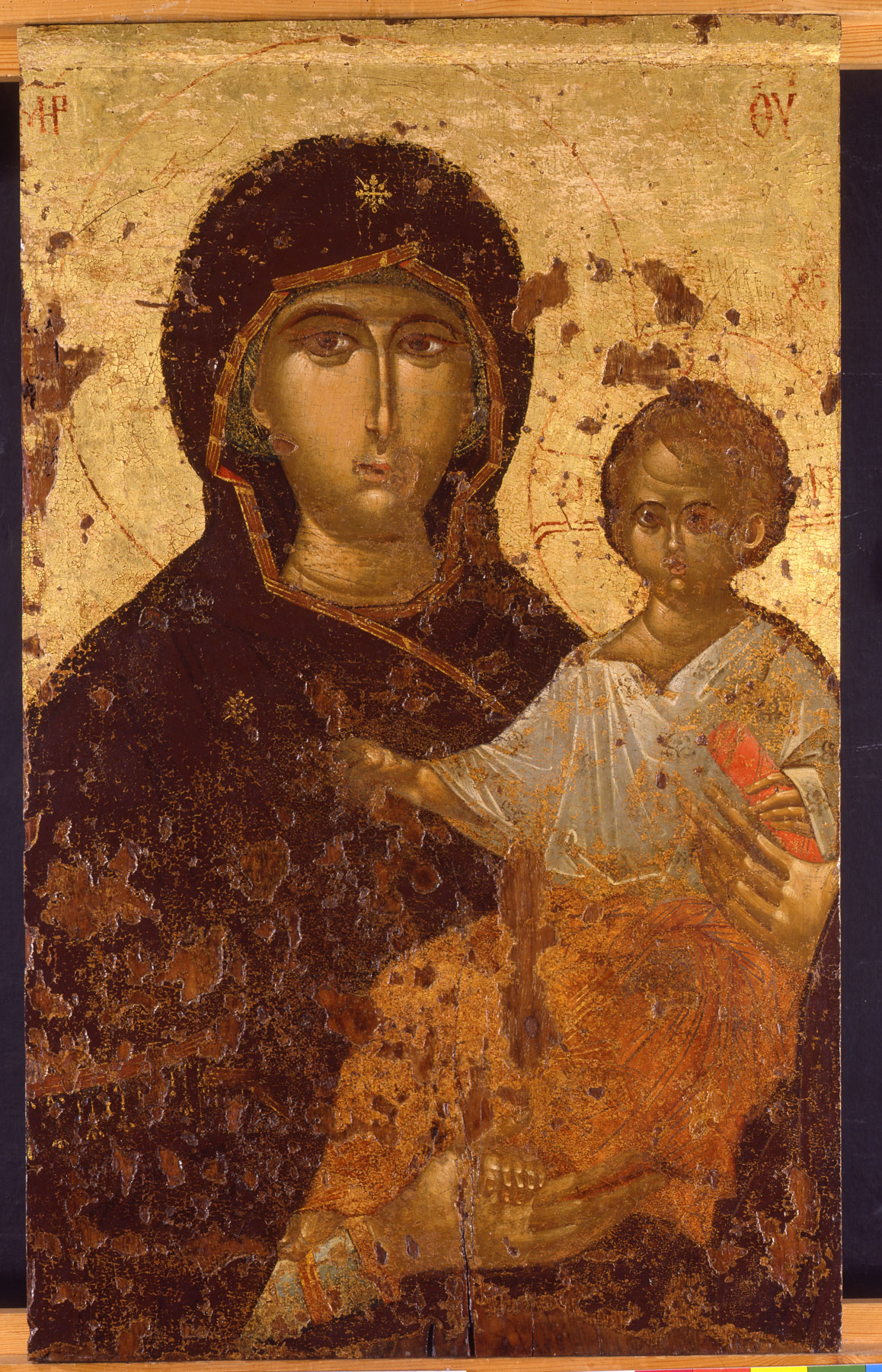 Saint Mary with Christ Icon from Annunciation Church in Thessaloniki, circa 1300